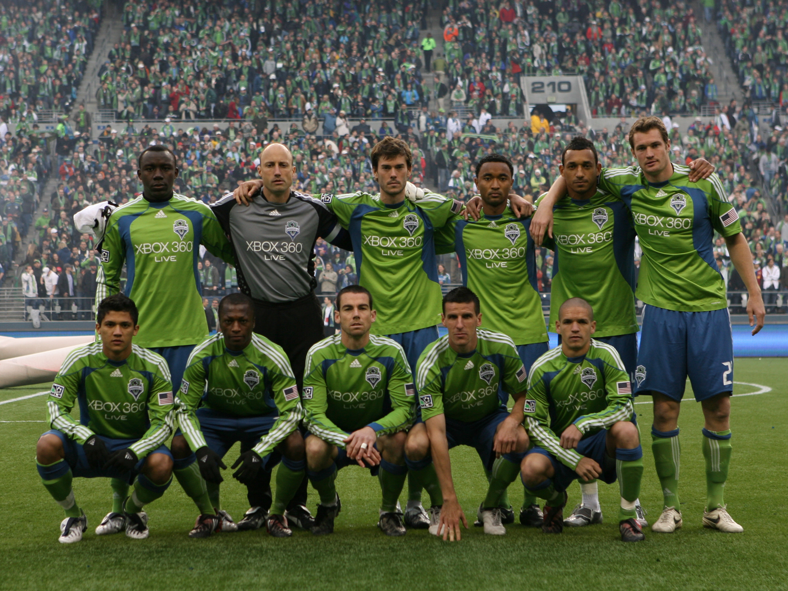 A photo of the starting lineup of Seattle Sounders FC for their inaugural game on March 19, 2009 vs. the New York Red Bulls played at Qwest Field in Seattle, Washington.